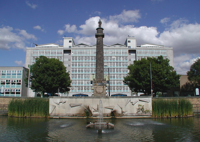 Wilberforce Monument, Hull